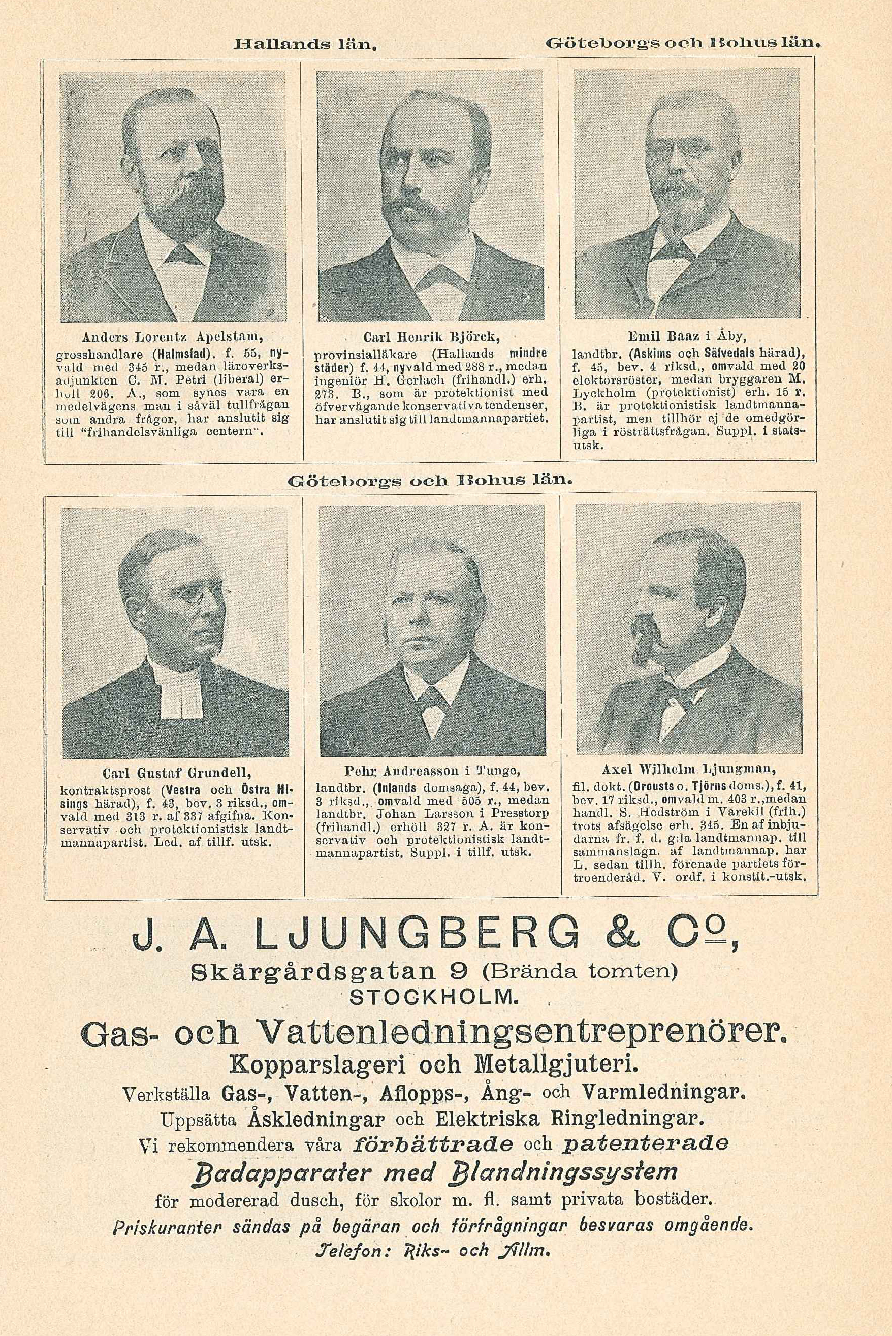 Page 23 of an album featuring portraits of all the members of the second chamber of the Swedish parliament (Sveriges riksdag) elected in 1897. This page featuring parts of the members representing the counties of Halland and Göteborg och Bohus.